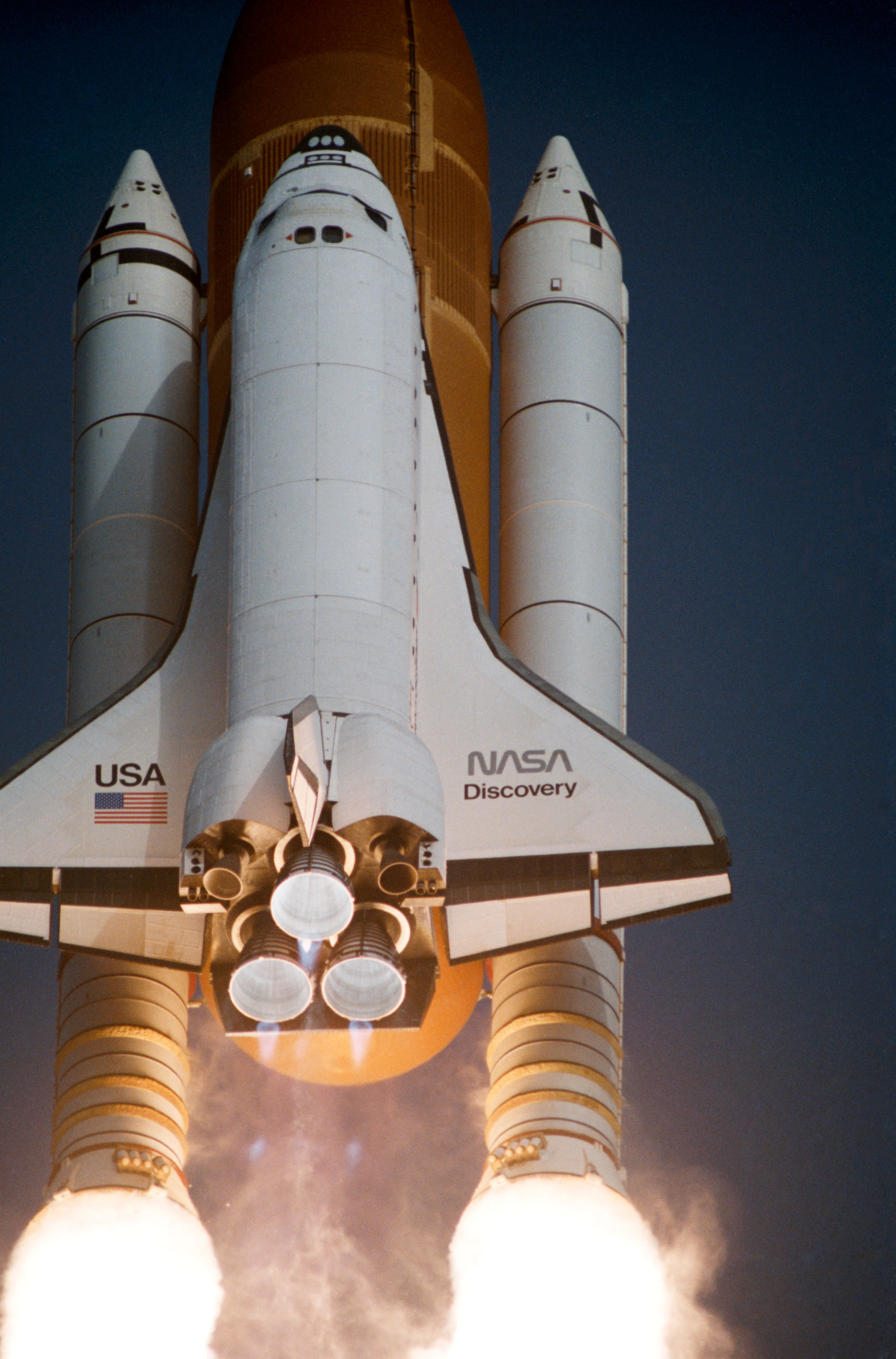 (June 17, 1985) On June 17, 1985, Space Shuttle Discovery's STS-51 G mission launched on a Comsat deployment mission. It deployed three communication satellites. The mission lasted a little over seven days. Image # : 51g-s-100